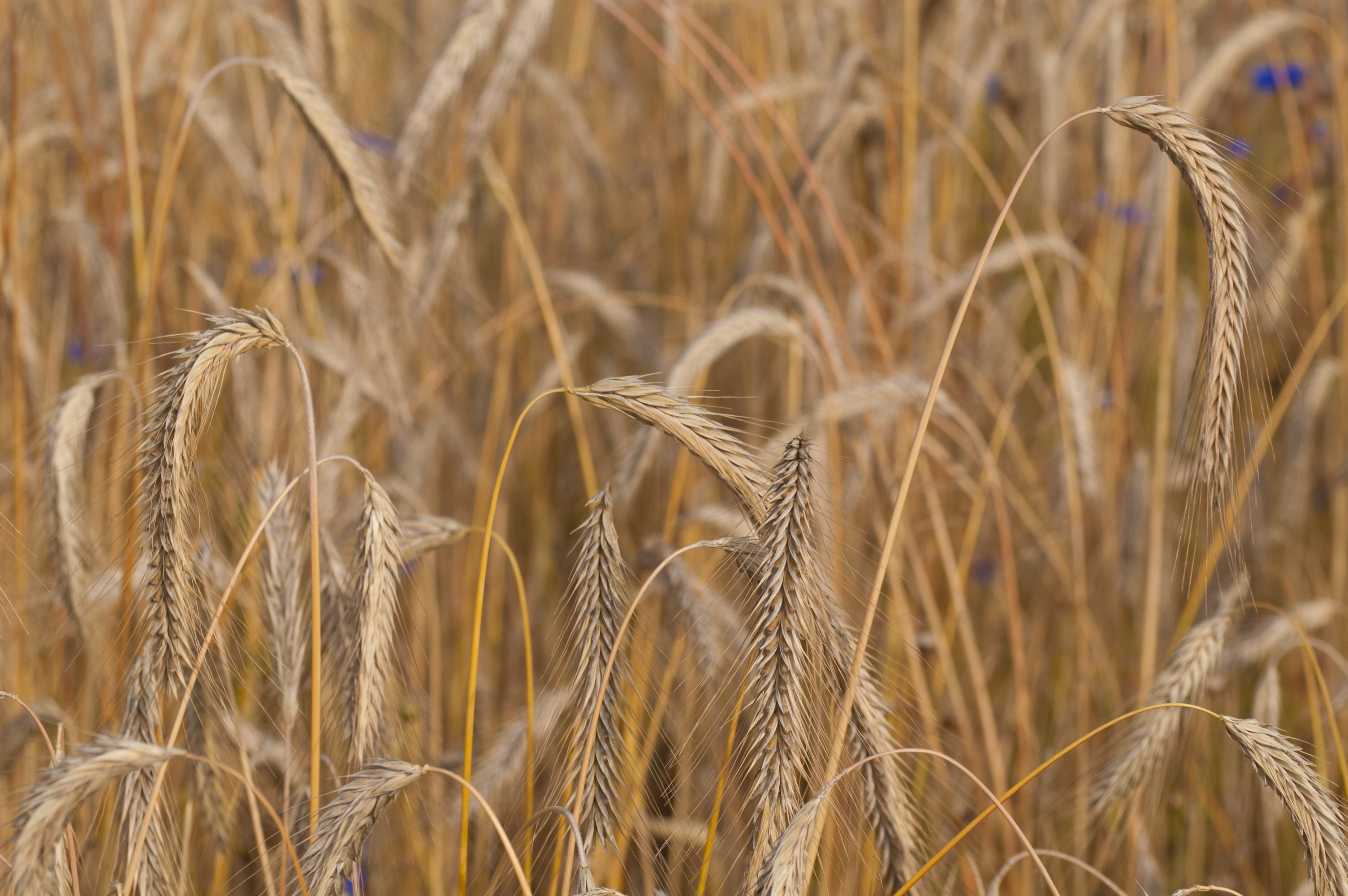 Rye